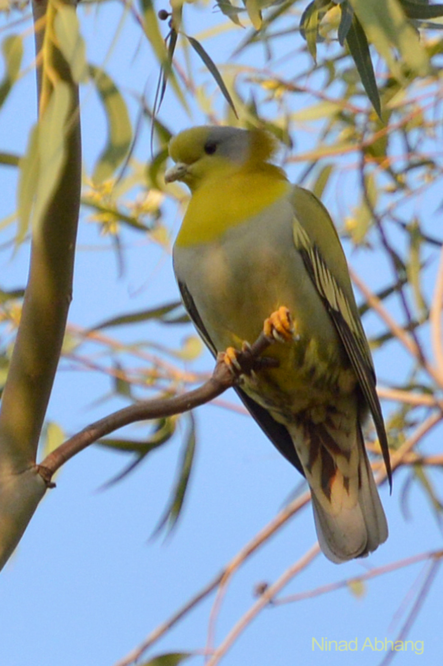 T.p.phoenicopterus a Northen Subpsecies spotted in Pohara-Malkhed Reserve Forest, Amravati, Maharashtra. Captured by Mr.Ninad Abhang